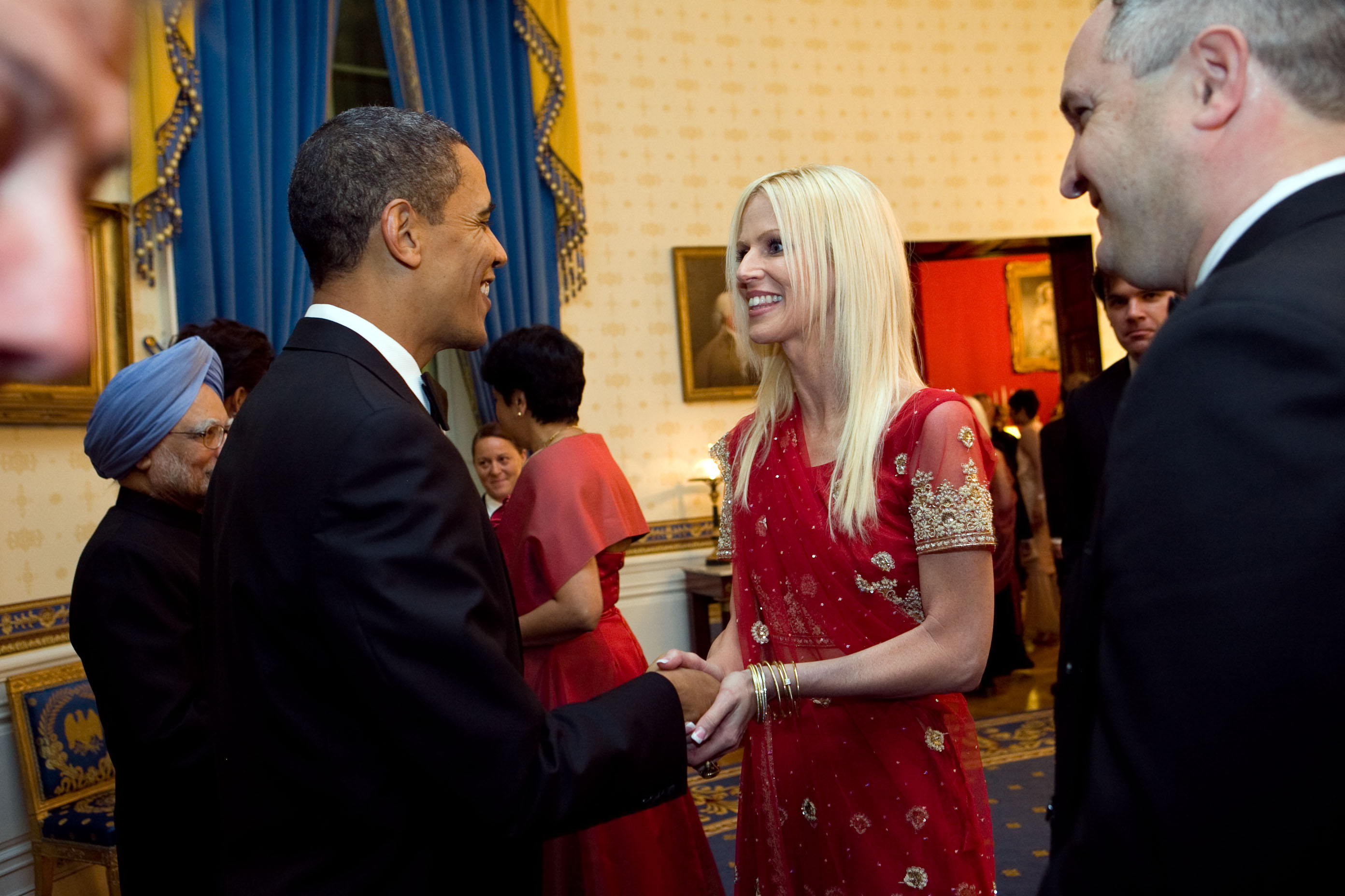 President Barack Obama greets Michaele and Tareq Salahi (two uninvited guests) in a receiving line in the Blue Room of the White House before the state dinner with Prime Minister Manmohan Singh of India on 24 November 2009. (Official White House Photo by Samantha Appleton)